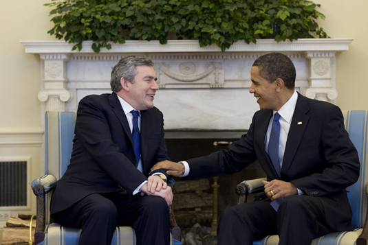 President Barack Obama and Prime Minister Gordon Brown meeting in the Oval Office of the White House